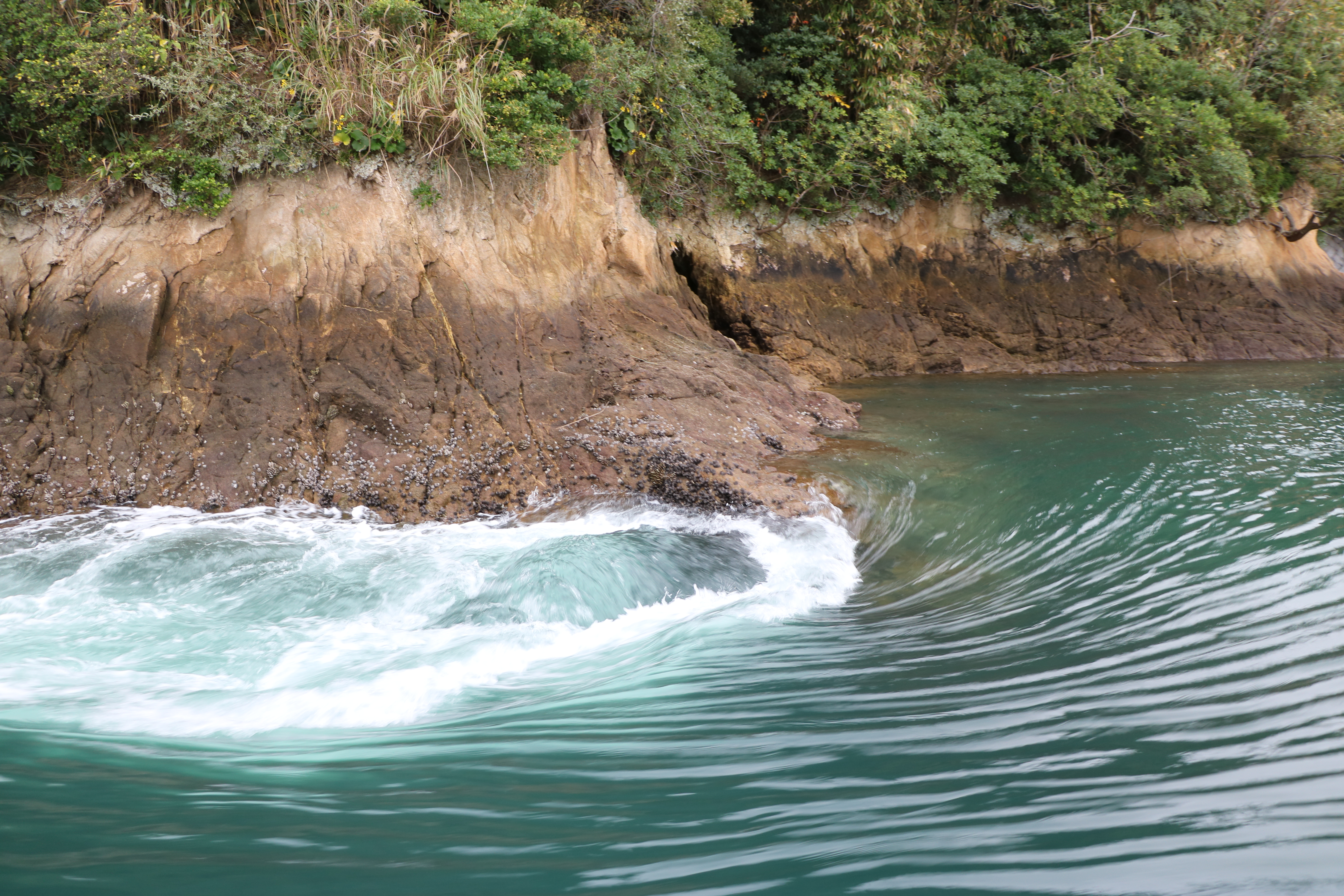 Tides of Noshima Island.